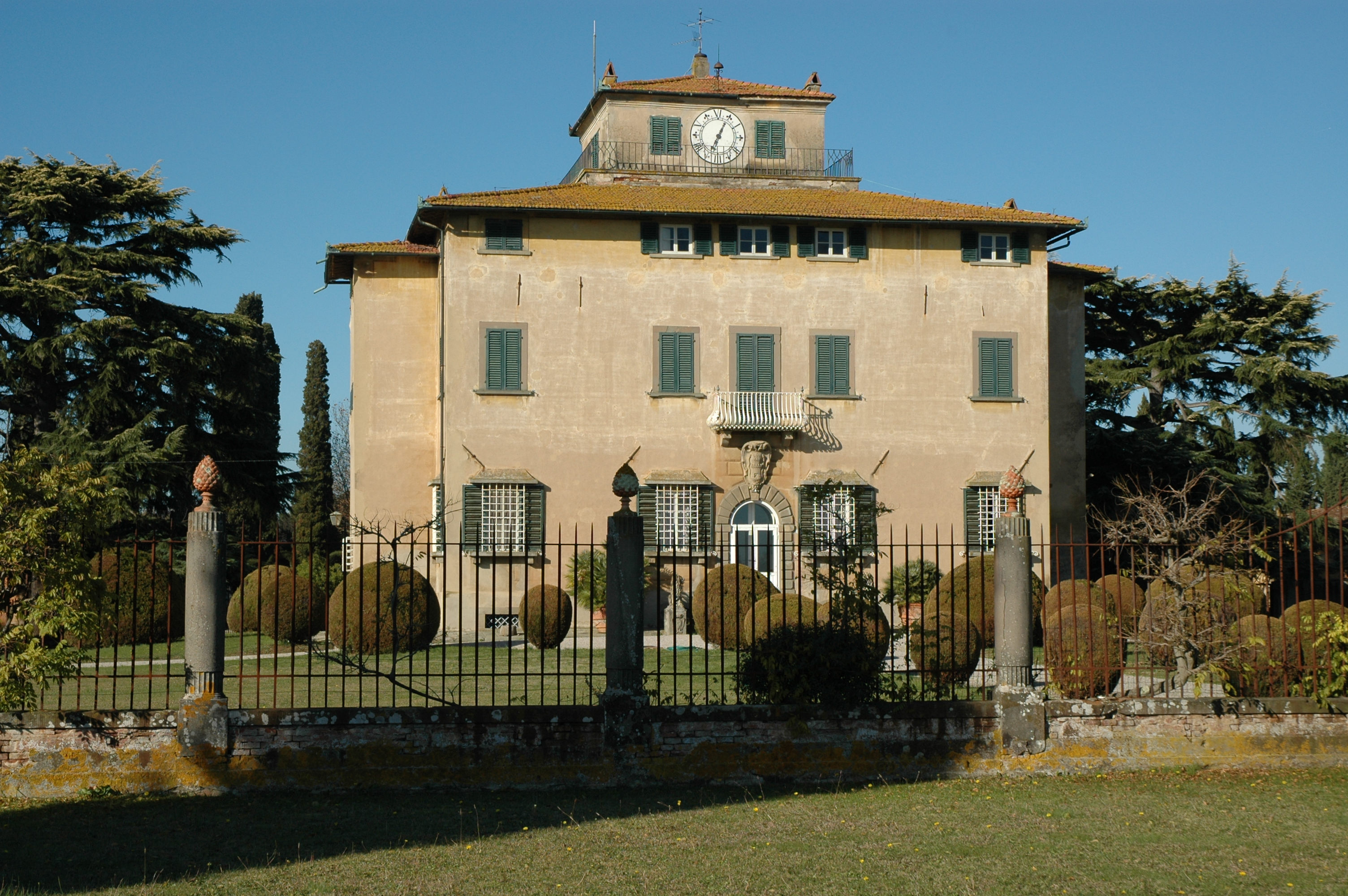 Villa Vettori Bargagli at Santa Croce sull'Arno (Pisa)